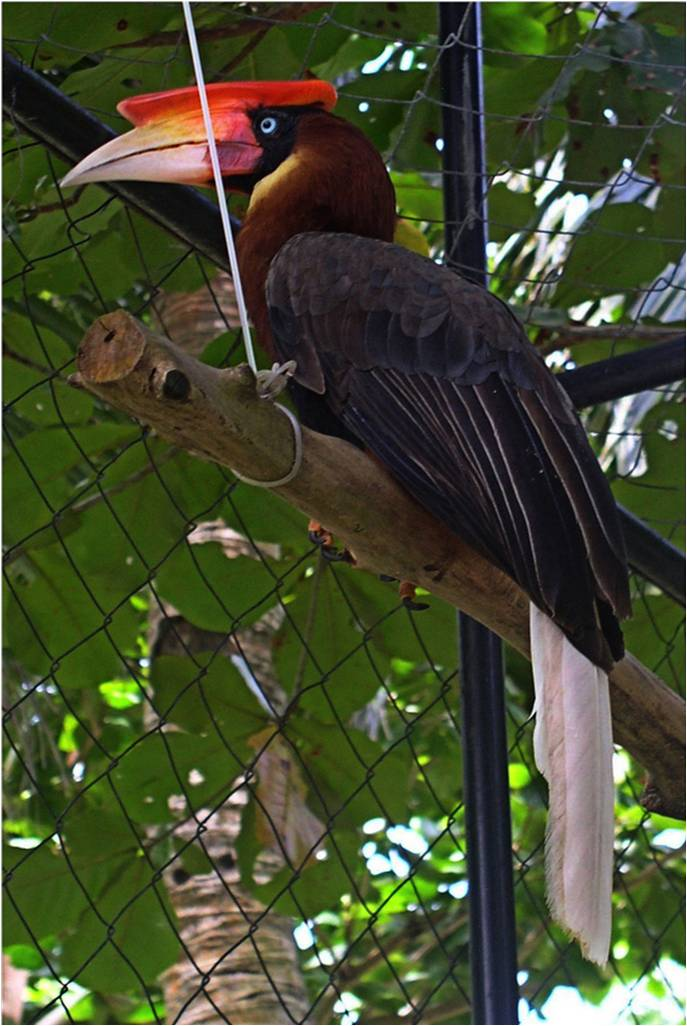 Rufous Hornbill - Buceros hydrocorax